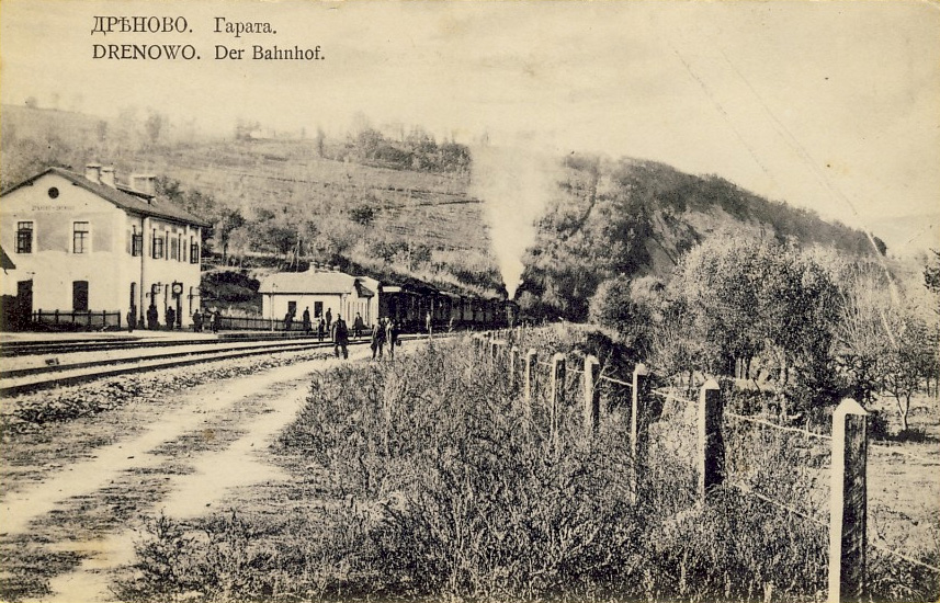 Train station in Drenovo in the WWI